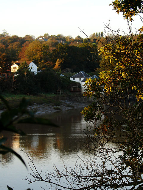 Old Powder Store, Shirehampton. The Old Powder Store, almost hidden by the trees, was were gunpowder was off-loaded from ships bound for Bristol's docks, as a precaution to prevent fire in the docks.